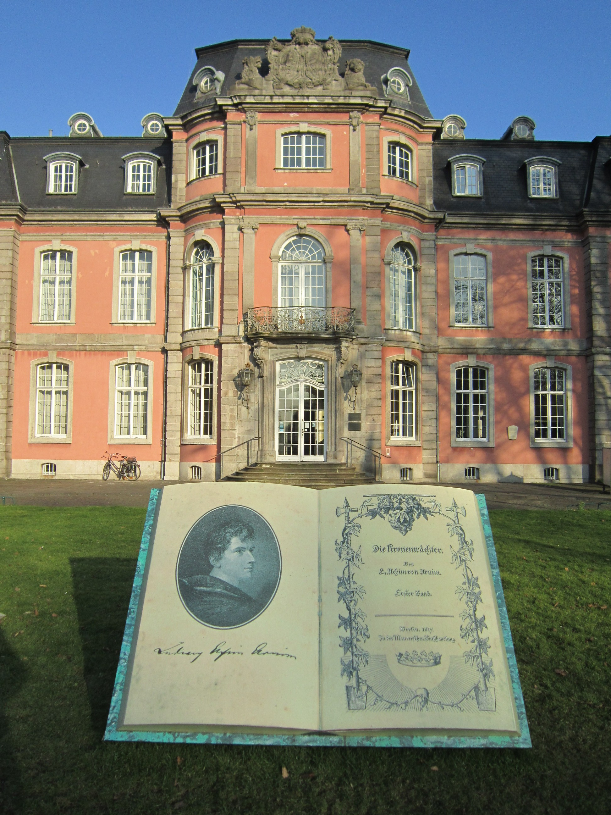 Facsimile of a double page in the novel "The Guardians Of The Crown" by Achim von Arnim in front of Jaegerhof Castle (Goethe Museum) in Duesseldorf